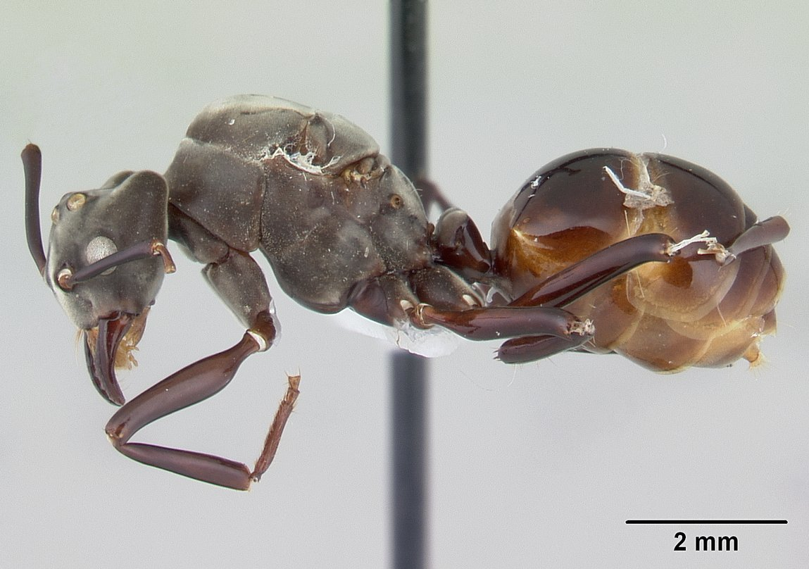 Profile view of ant Bregmatomyrma carnosa specimen casent0178754.